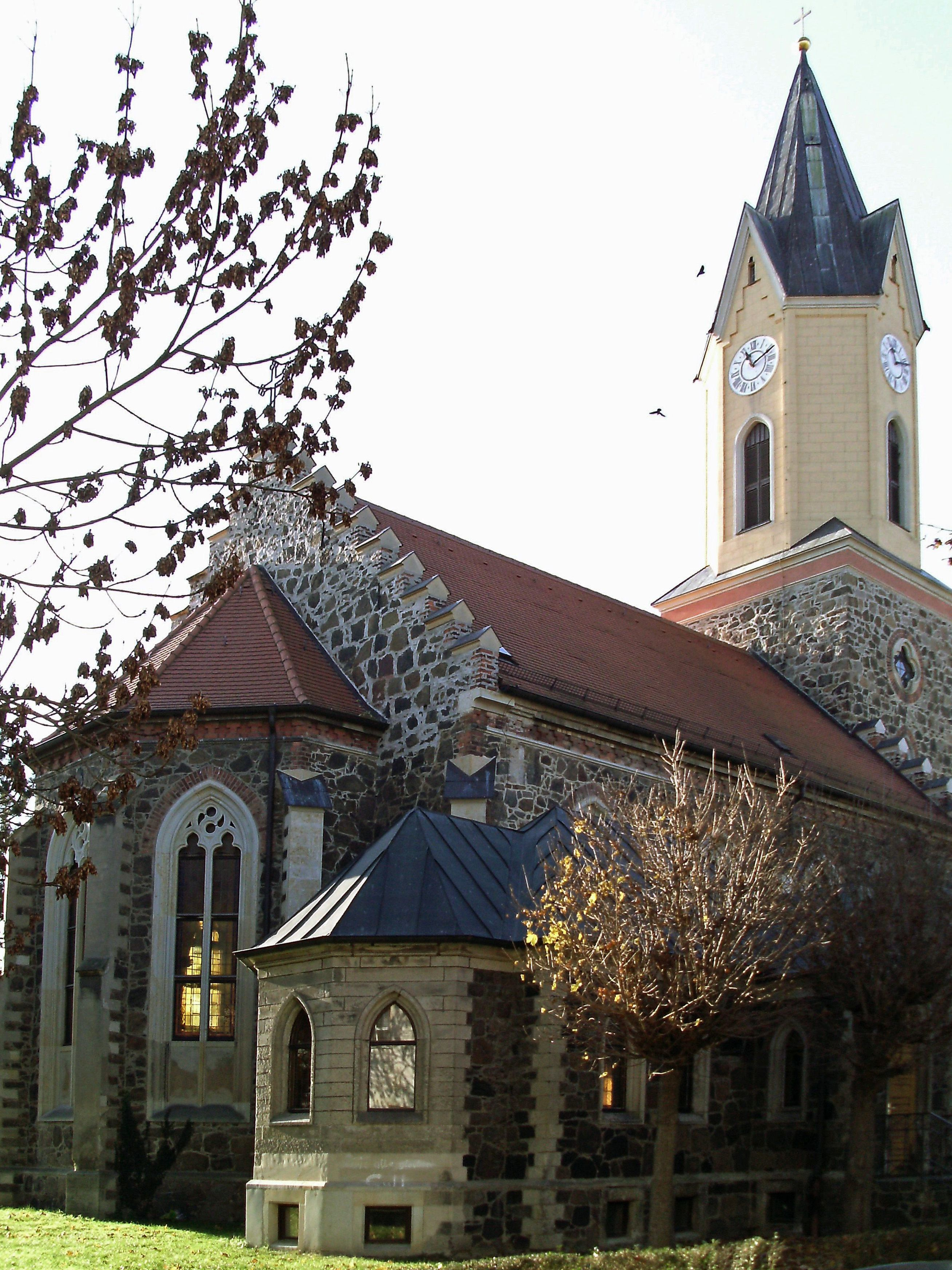 Sommerfeld church (Leipzig, Saxony)